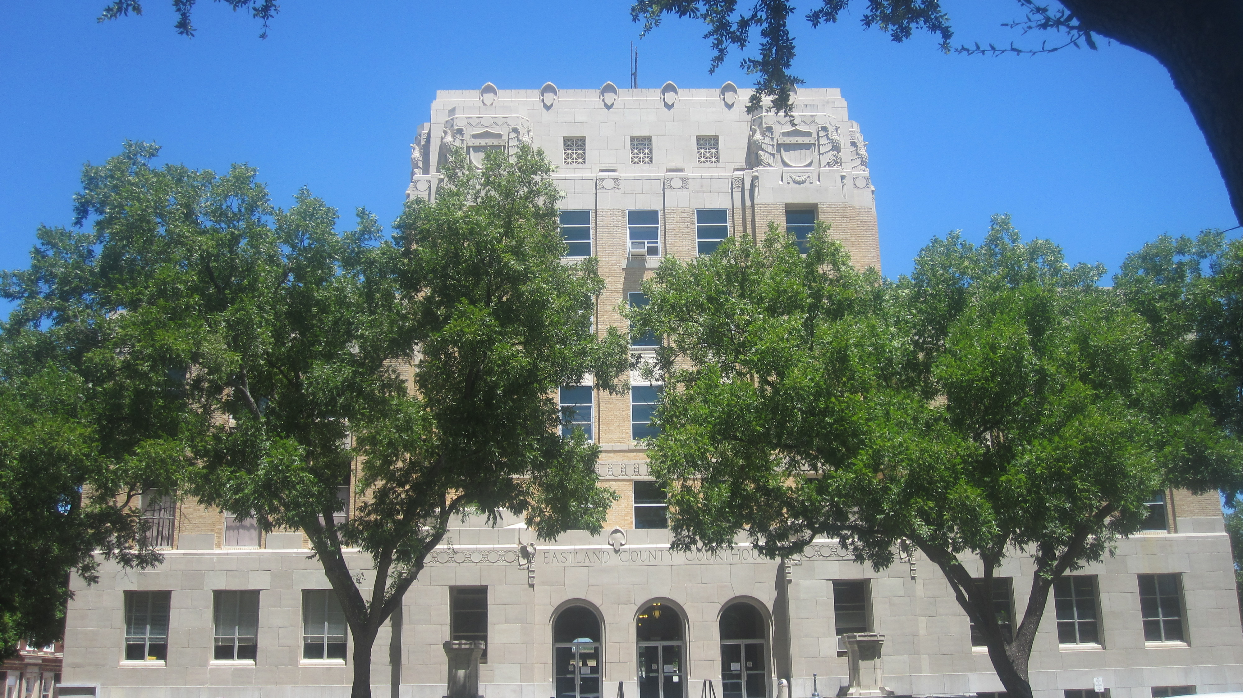 Eastland County Courthouse. I took photo in Eastland, TX, with Canon camera.